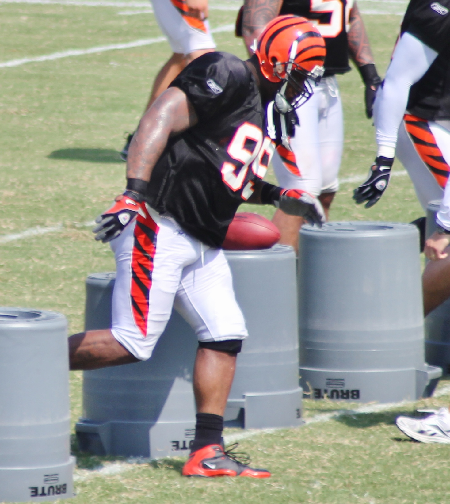 Cincinnati Bengals defensive tackle Tank Johnson does a drill at 2010 training camp.